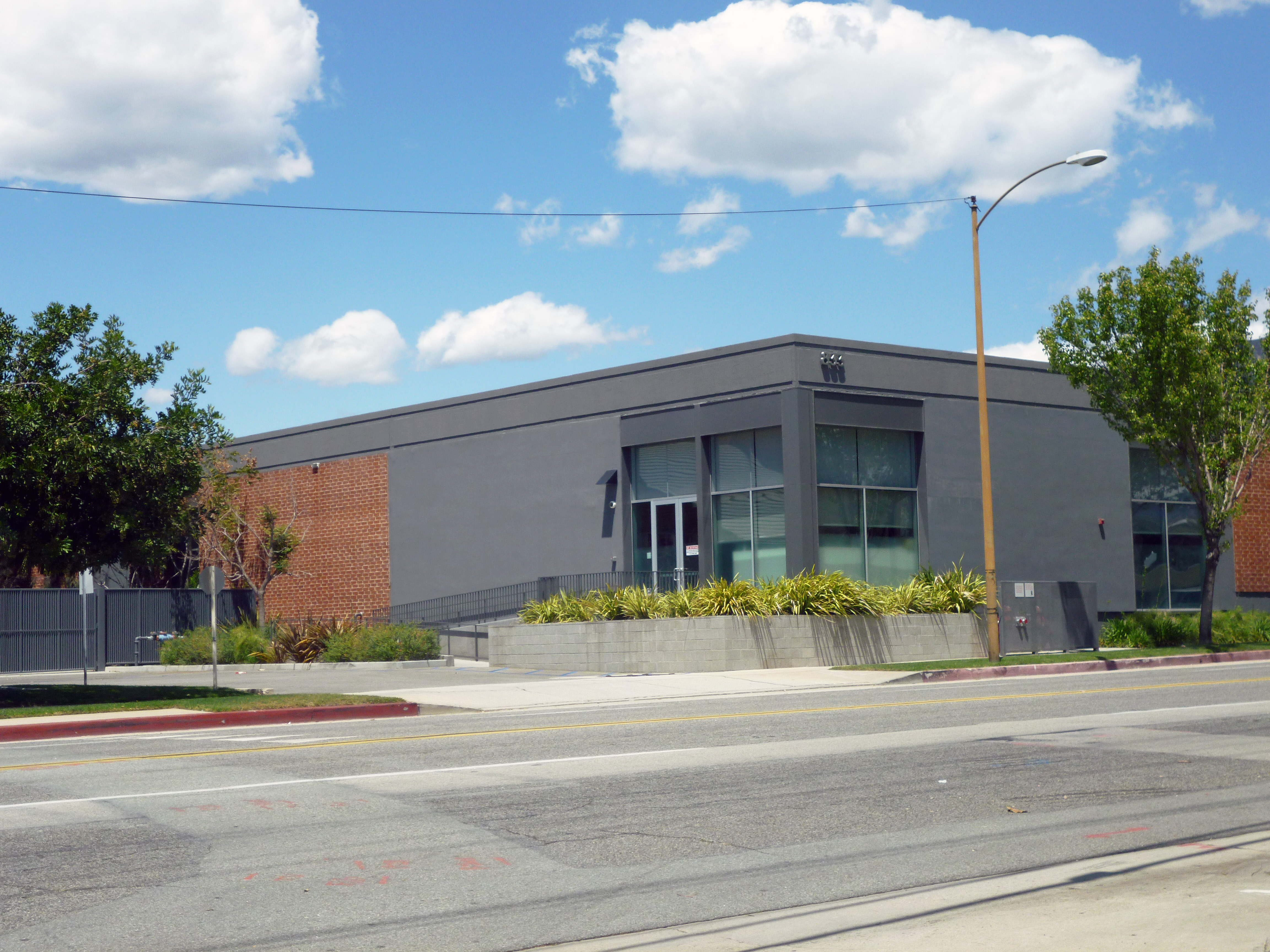 This building at 833 Sonora Avenue, Glendale, California is home to DisneyToon Studios.